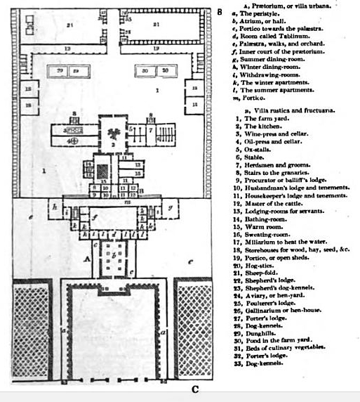 Praetorium_or_villa_urbana. Picture in book of Loudon, J. C. (John Claudius), 1783-1843, An encyclopaedia of gardening; comprising the theory and practice of horticulture, floriculture, arboriculture, and landscape-gardening, including all the latest improvements; a general history of gardening in all countries; and a statistical view of its present stat, with suggestions for its future progress, in the British Isles (1828), page 29